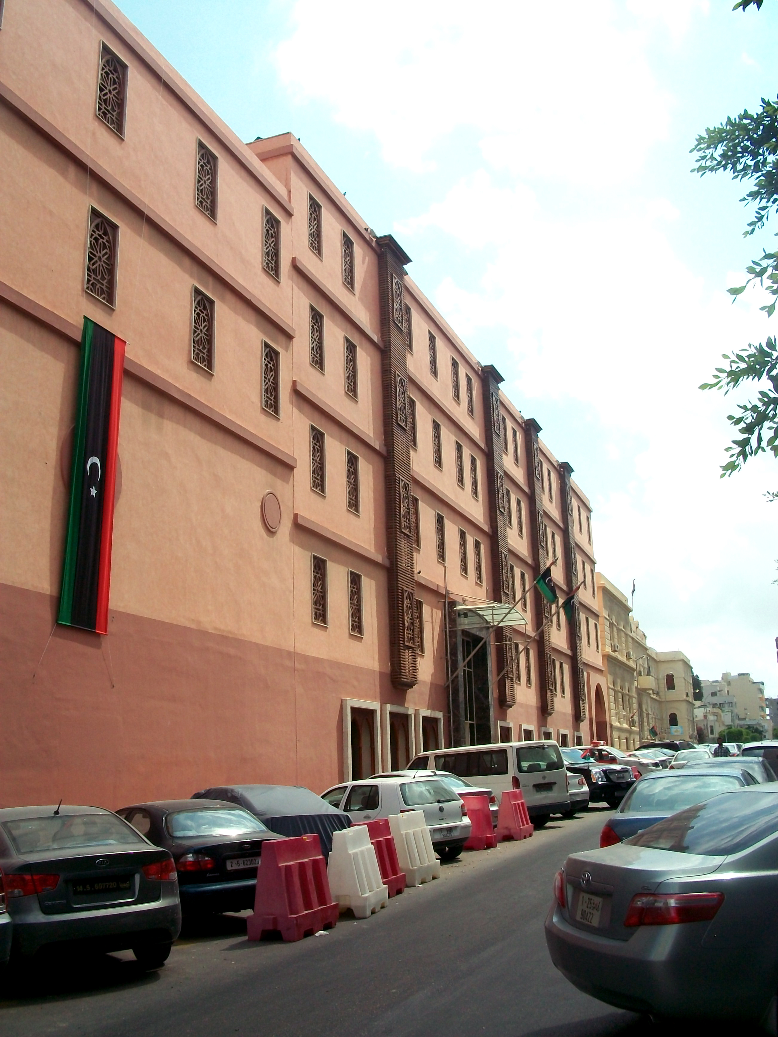 The Al Waddan Intercontinental Hotel in Tripoli Libya. The main entrance is located on Sidi Isa Street.